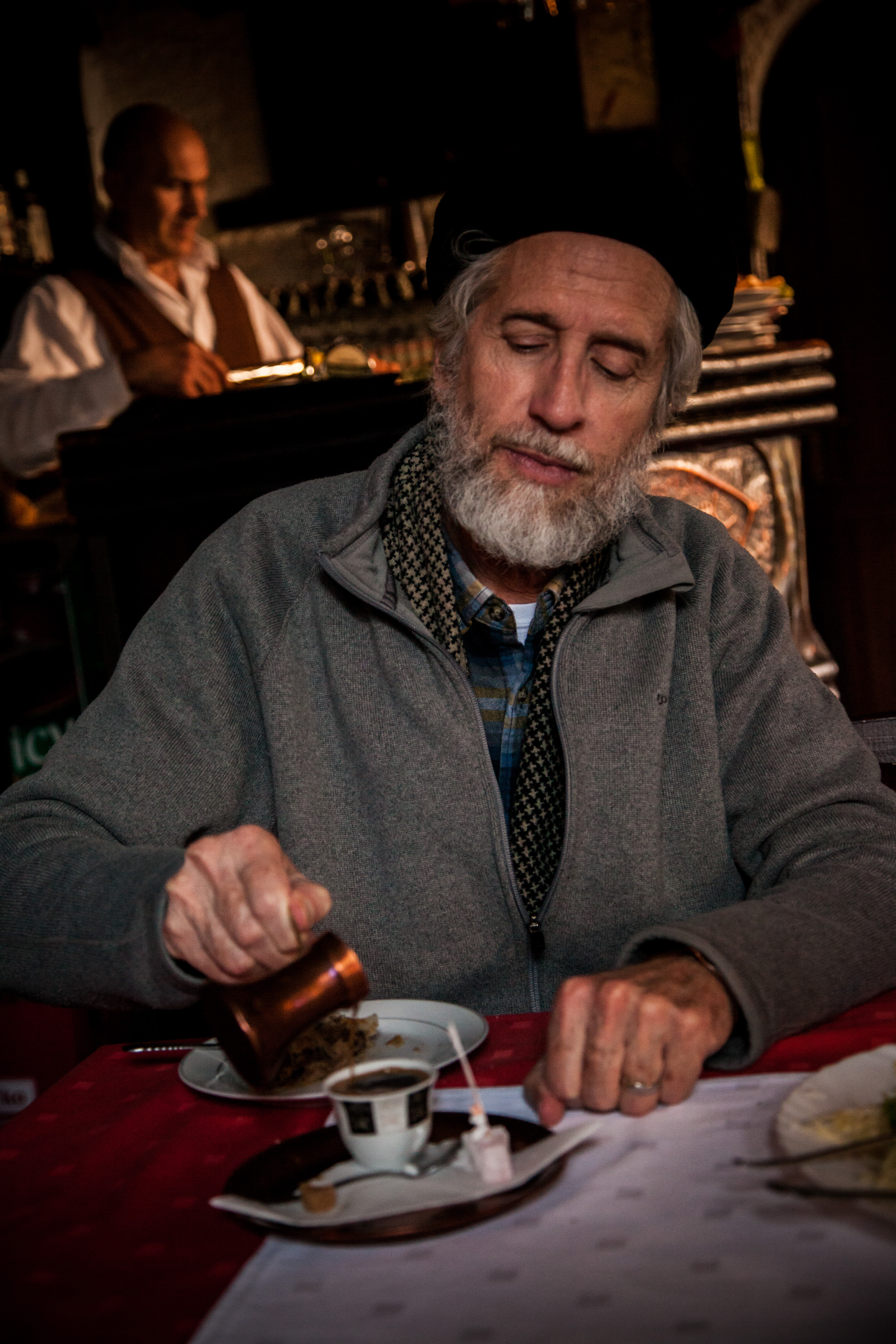 Director Cristóbal Krusen